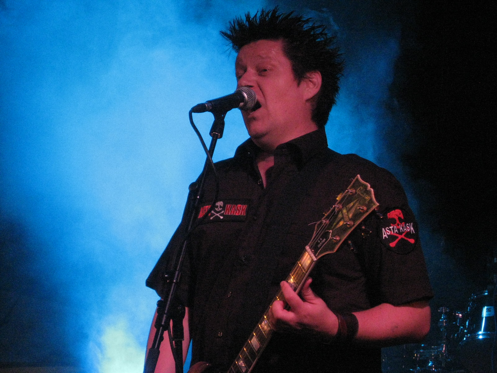 Bonni Pontén in Asta Kask playing at Pretzeltown festival in Södertälje.